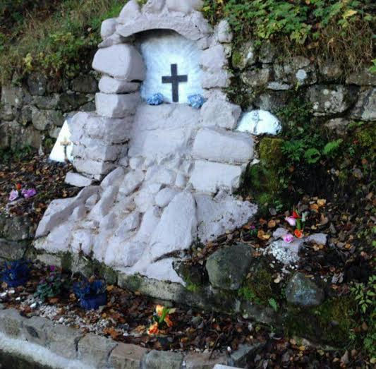 refurbished croy shrine